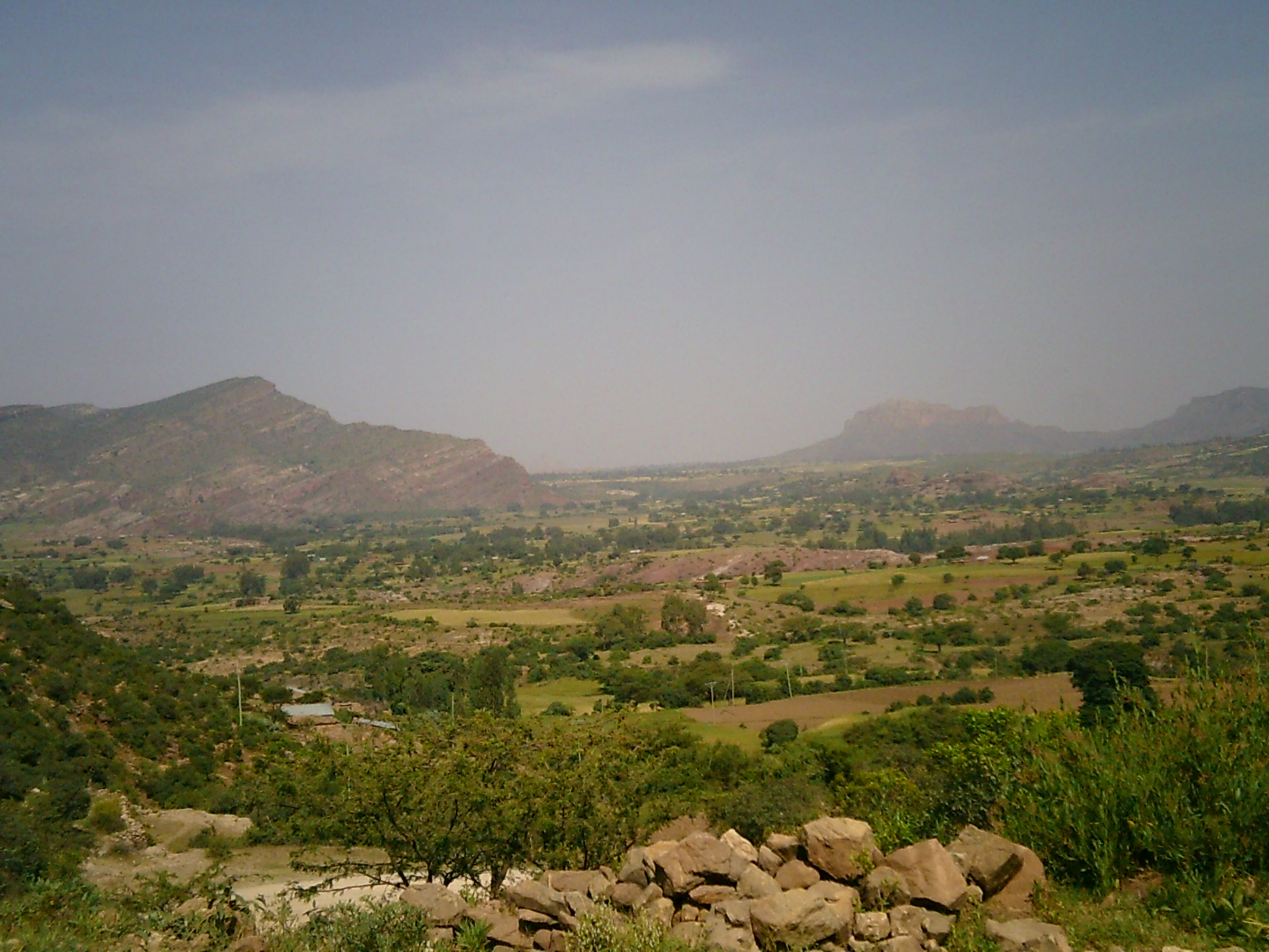 Cuesta landscape on the road from Wukro to Hauzien